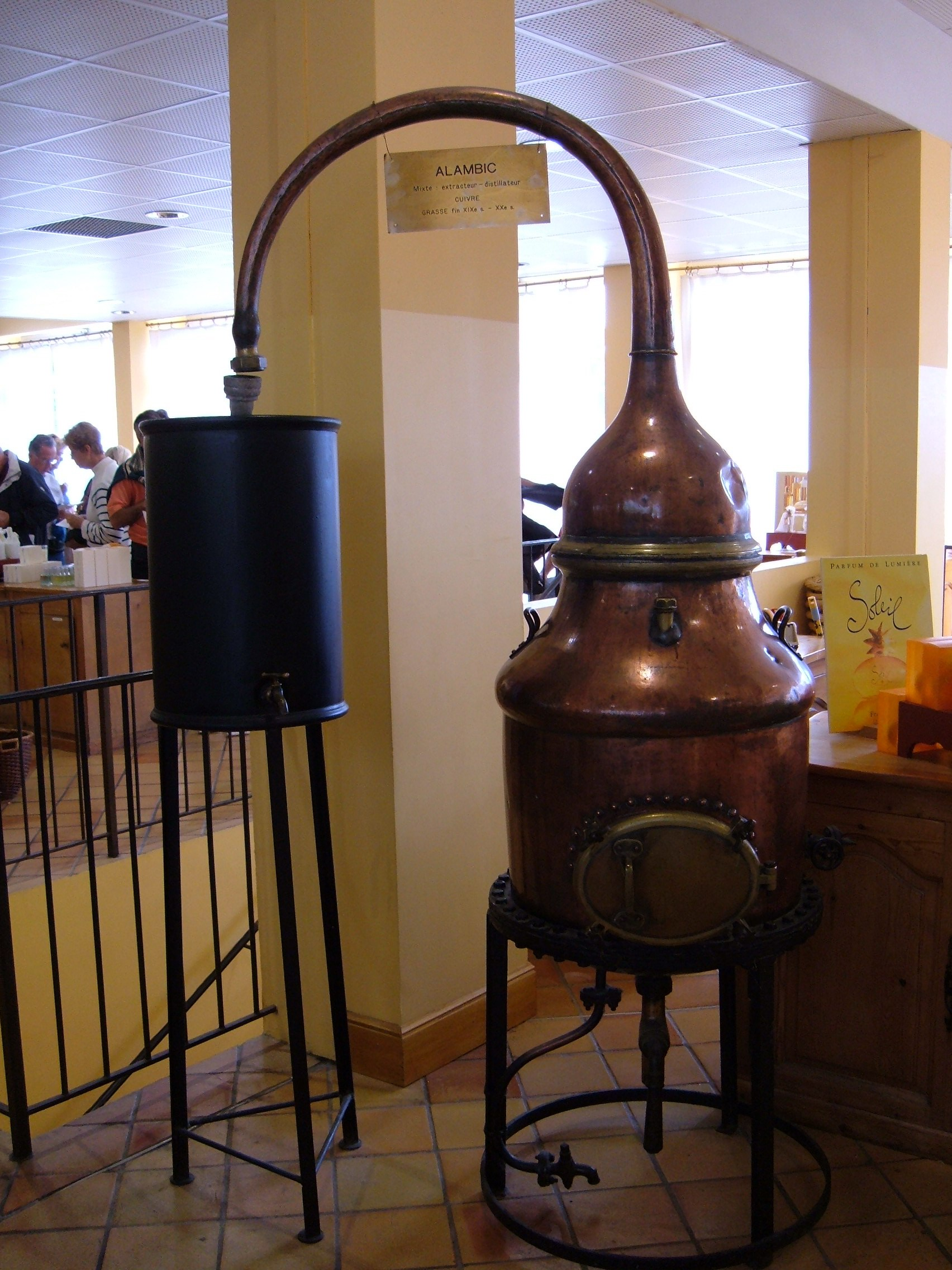 Small perfume distillery on display at the Fragonard perfume factory in Èze, France.